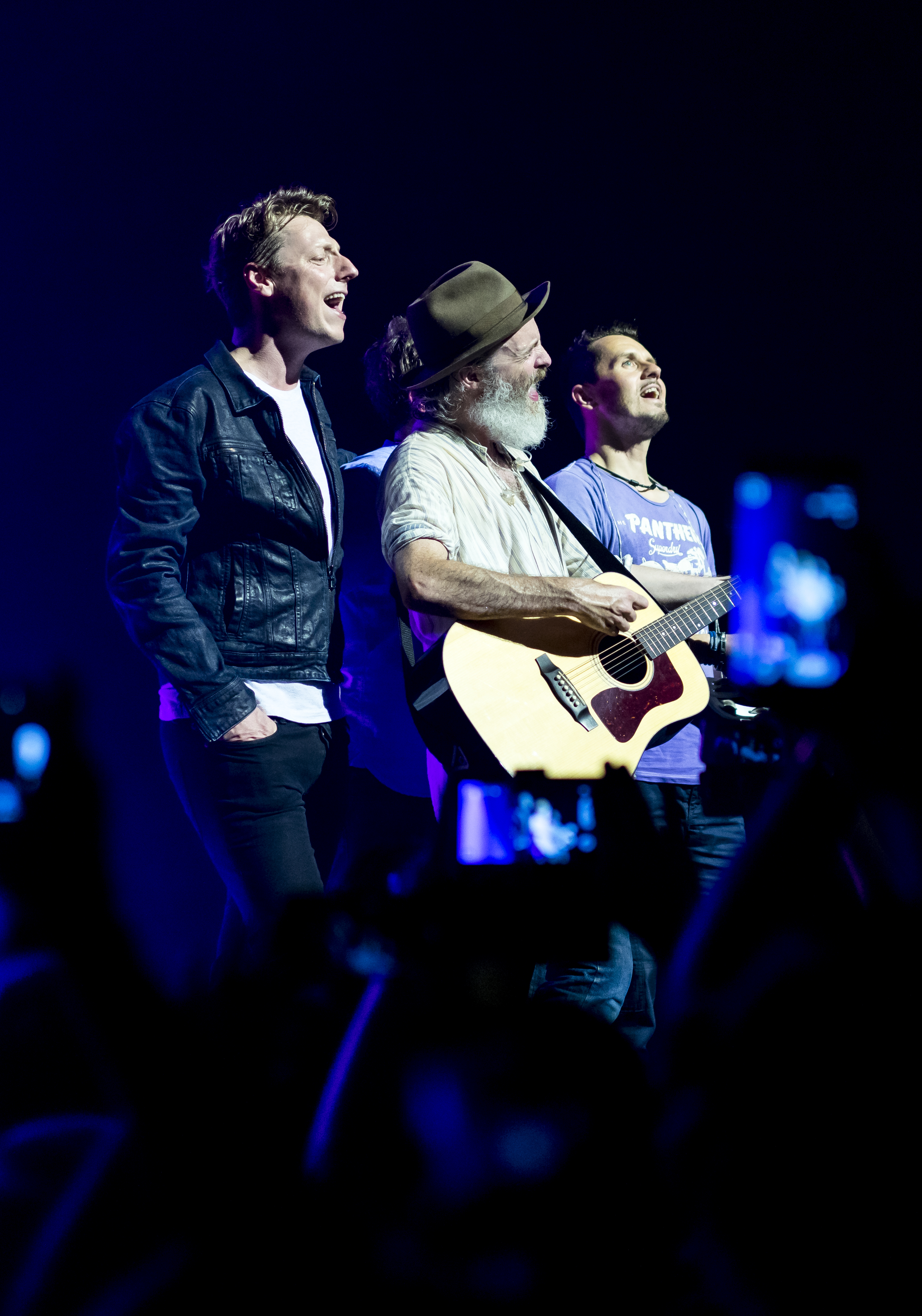 neil primrose travis singapore 2014